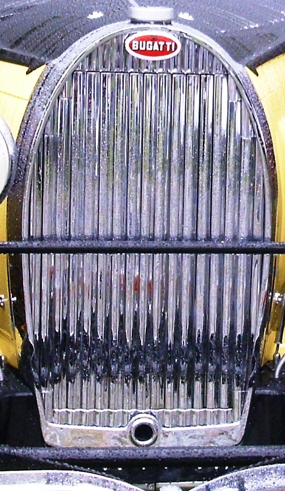 Crop and enhancement of File:Bugatti 57 Stelvio Cabriolet von Gangloff 1934 Front.JPG, focusing on radiator grille